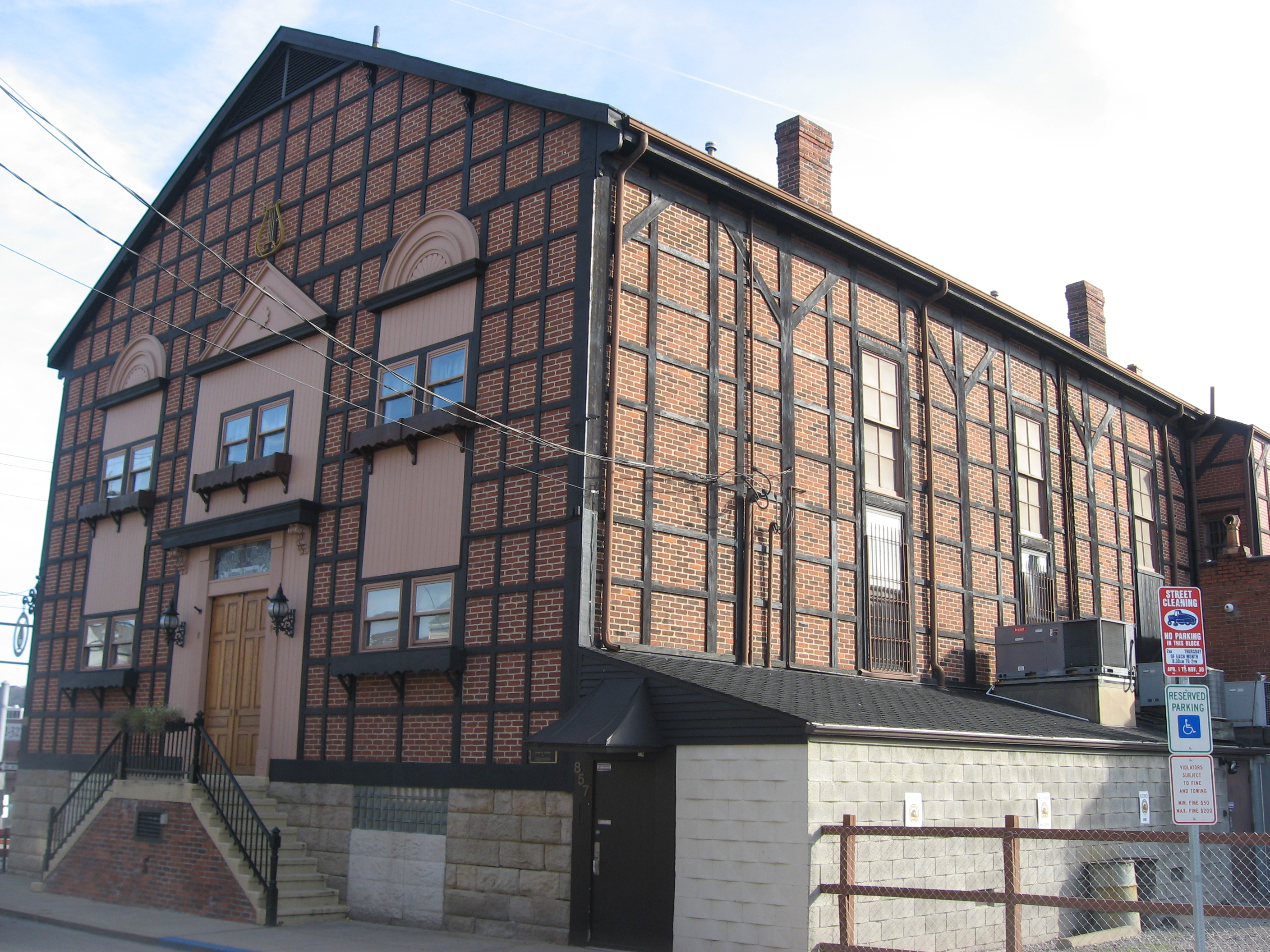 Front and western side of the Teutonia Maennerchor Hall, located at 857 Phineas Street in the Allegheny East neighborhood of Pittsburgh, Pennsylvania, United States. Built in 1888, it is listed on the National Register of Historic Places.